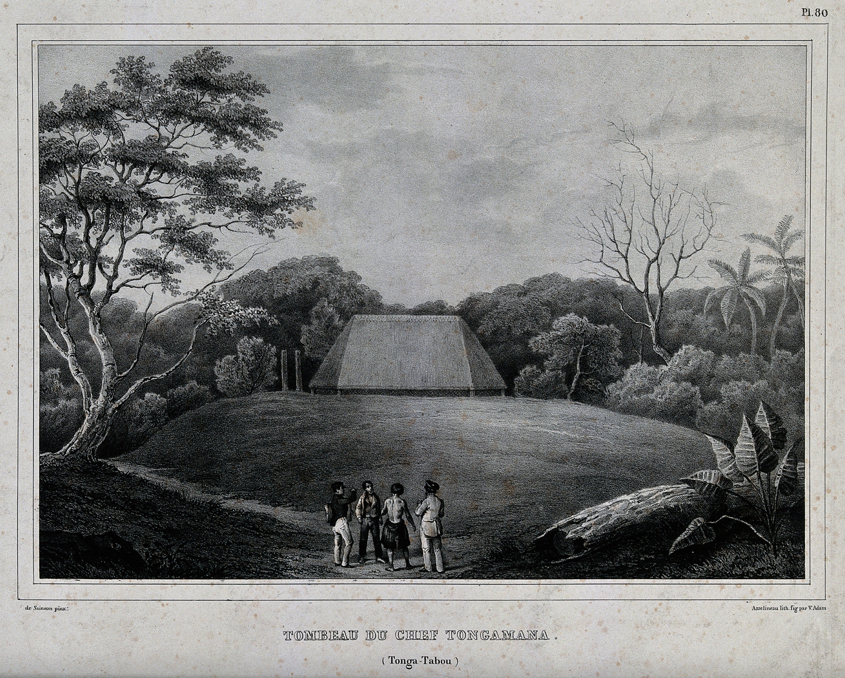 Men standing in front of the tomb of Chief Tongamana (Tonga-Tabou, Tonga "Tombeau du chef Tongamana" Iconographic Collections Keywords: Victor Adam; Tonga; Pacific; de. Sainson; Asselineau.; Tomb; Grave